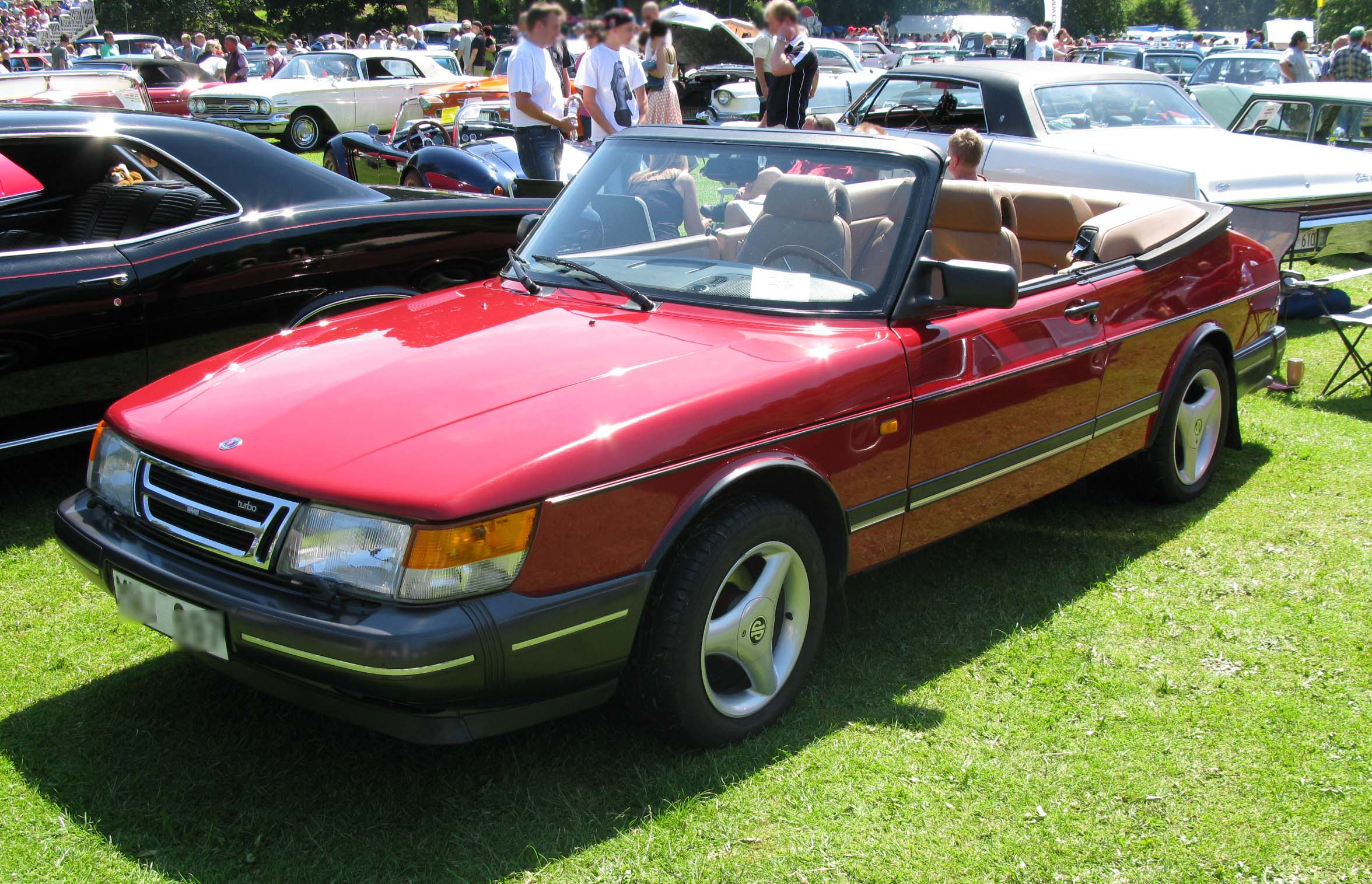 1987 Saab 900 T16 cabriolet.Event: Nostalgia festival, Ronneby 2012